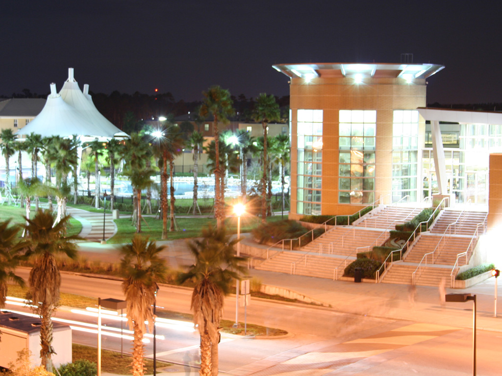 UCF gym